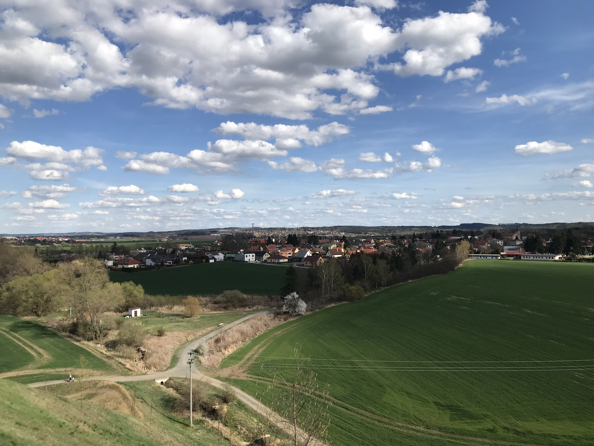 Zlatníky (Zlatníky-Hodkovice) from Kamínek hill (from north)